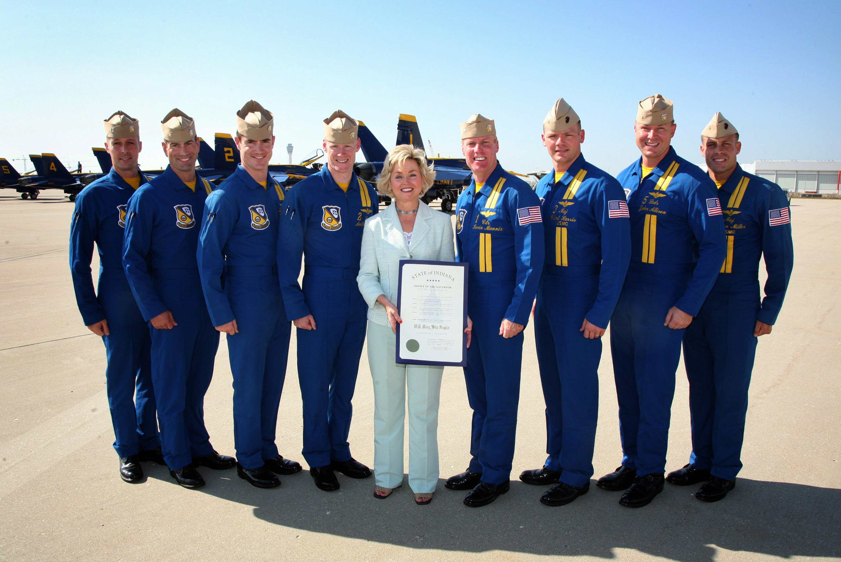 INDIANAPOLIS (Aug. 23, 2007) - The Honorable Becky Skillman, Lt. Governor of Indiana presents a certificate declaring the Blue Angels as Honorary Hoosiers. The presentation was given in conjunction with festivities of Indianapolis Navy Week, one of 26 Navy Weeks planned across America in 2007. Navy Week is designed to show Americans the investment they have made in their Navy and increase awareness in cities that do not have a significant Navy presence. U.S. Navy photo by Chief Mass Communication Specialist Gary Ward (RELEASED)